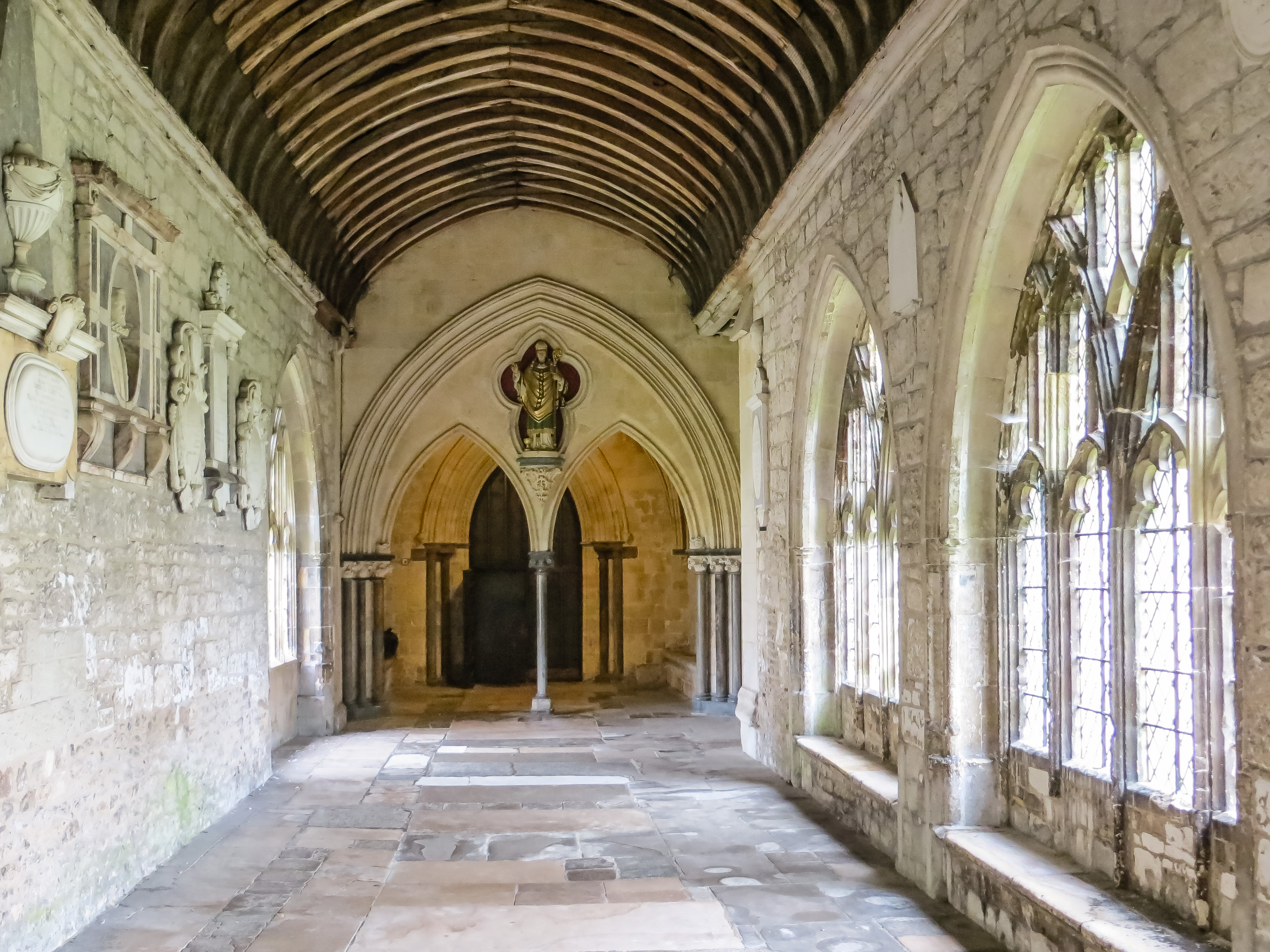 Cloisters of Chichester Cathedral.